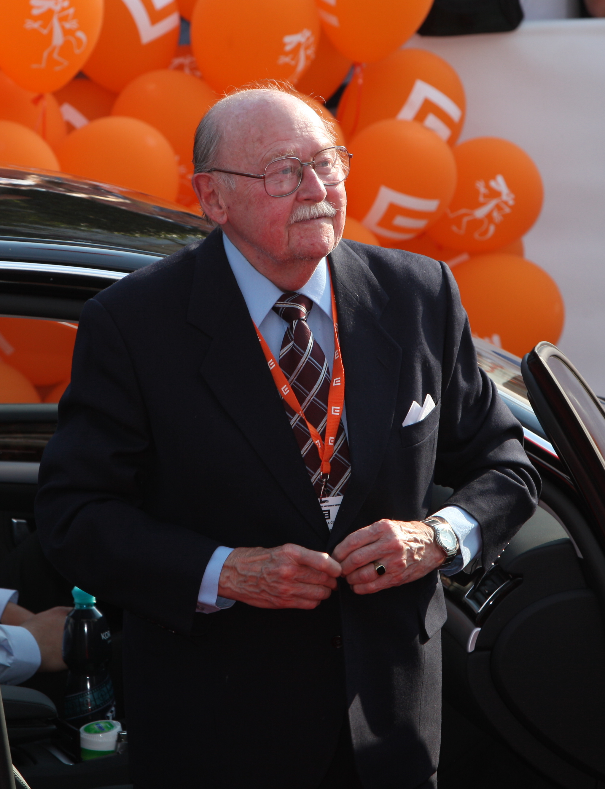 Czech actor Lubomír Lipský at 44th Karlovy Vary International Film Festival